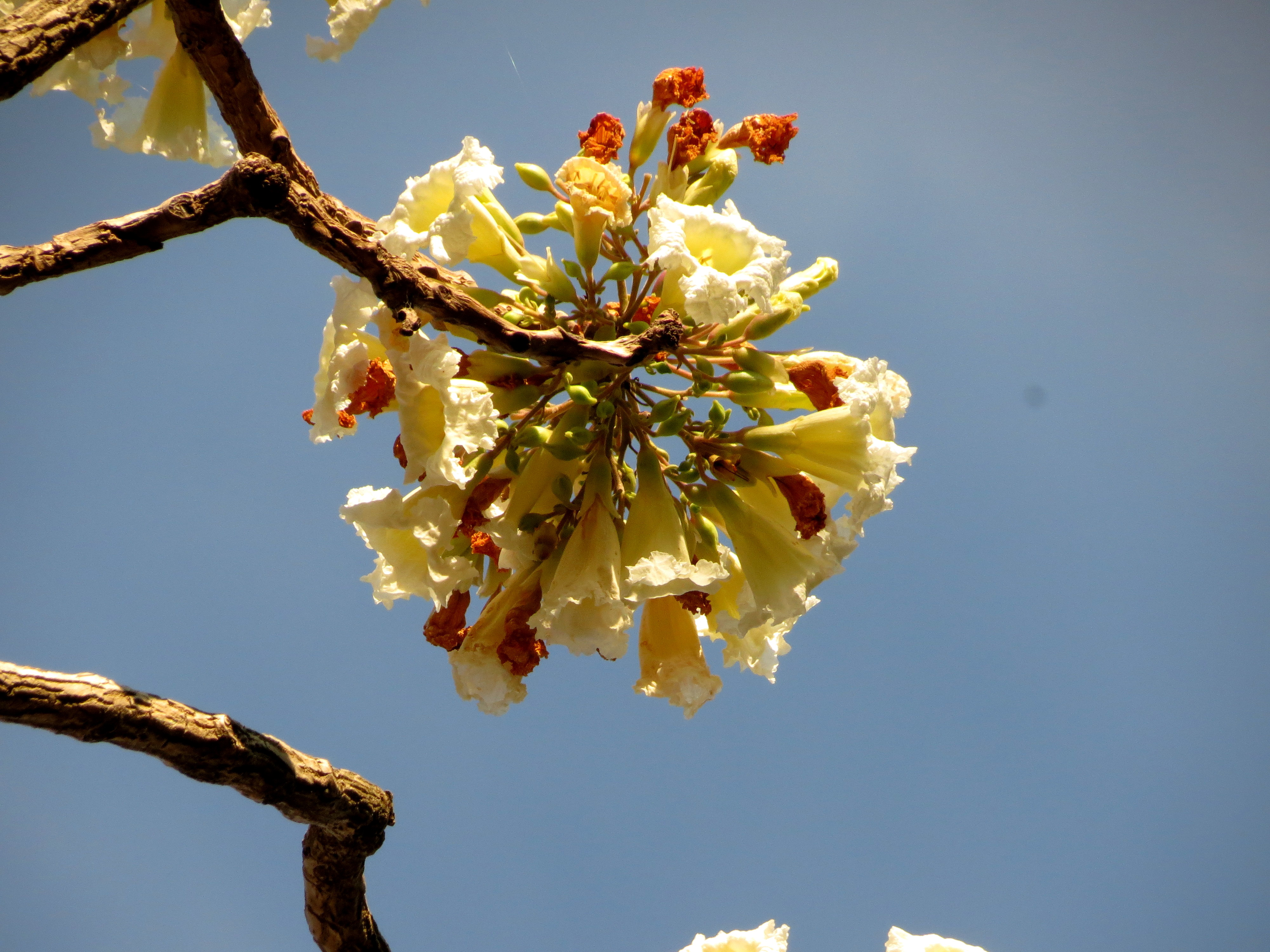 Radermachera xylocarpa seen in Ramakrishna ashram Shivanahalli, Bengaluru